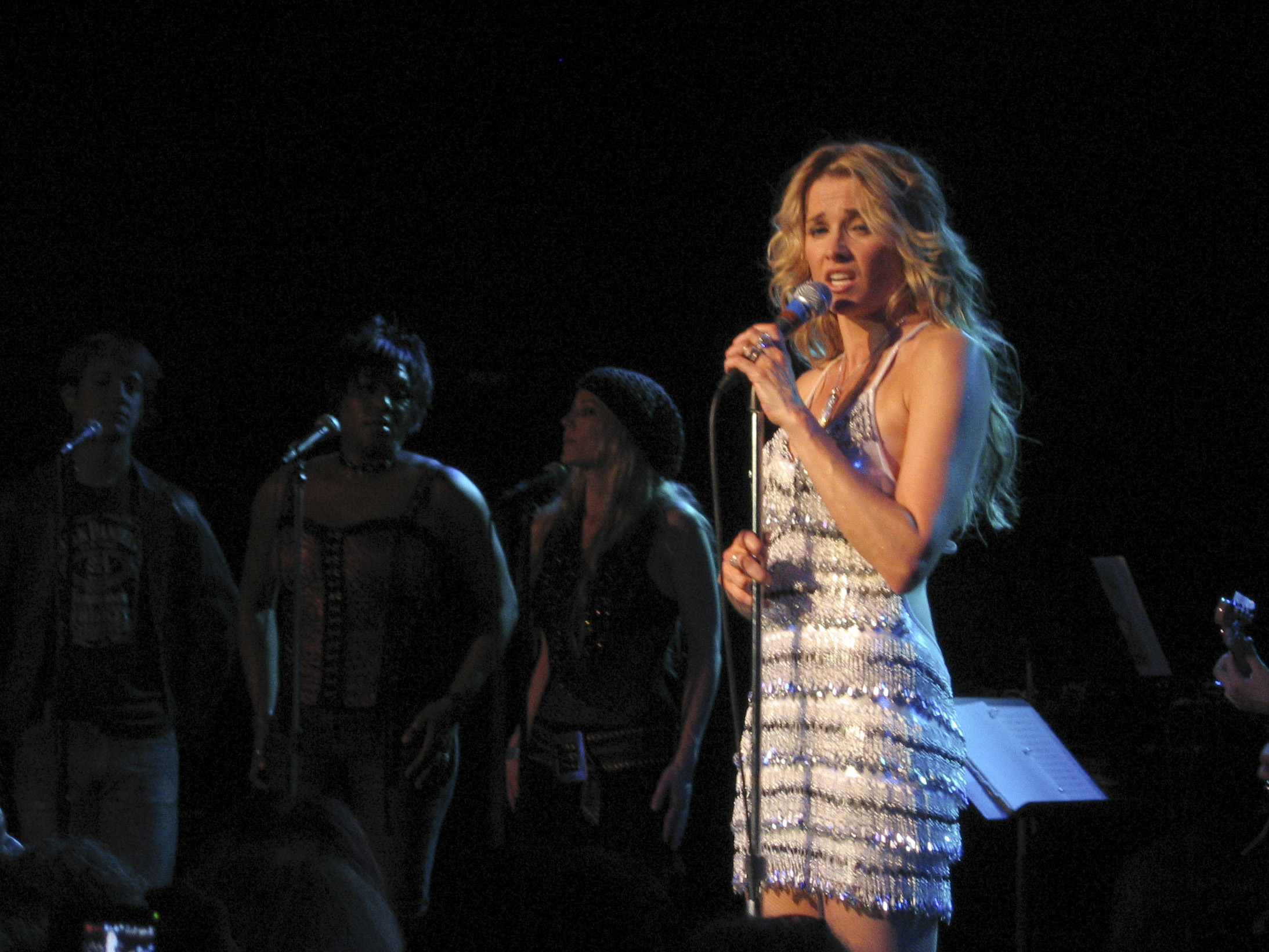 Lucy Lawless in concert at The Roxy in Los Angeles, CA - January 14th, 2007.